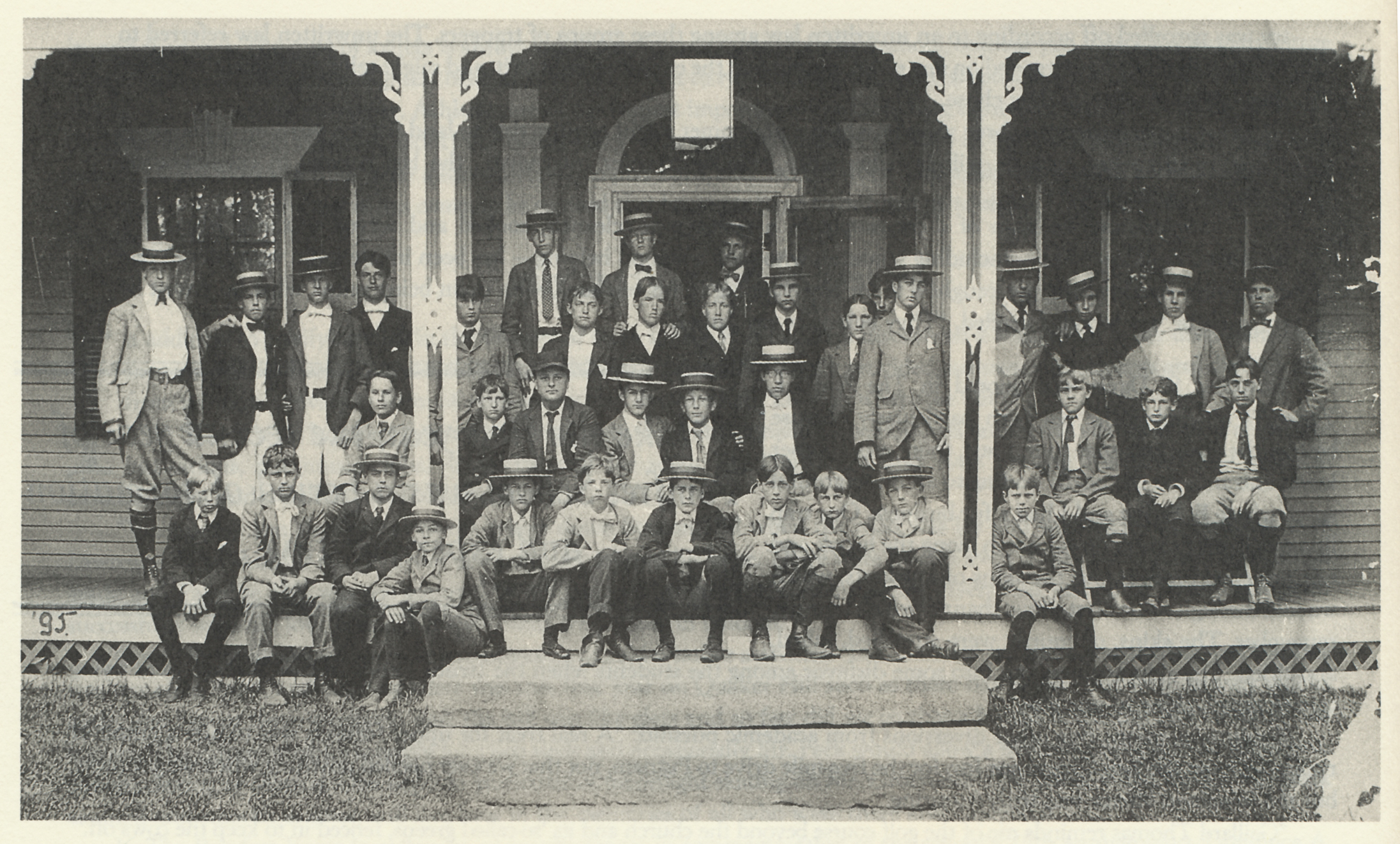 Pomfret School Student body 1897 at original Main House